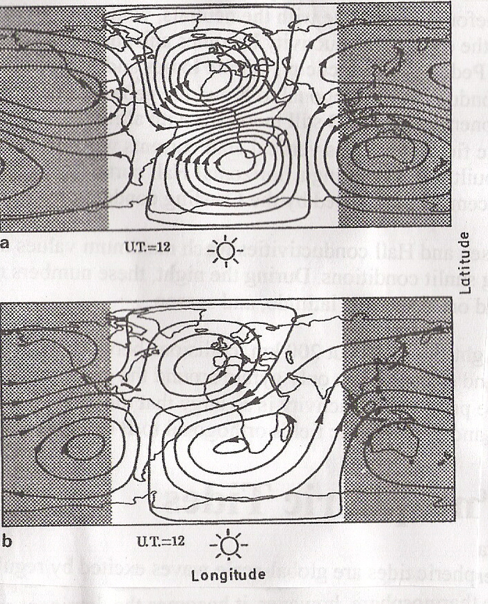 Variation of Sq current as function of day and latitude